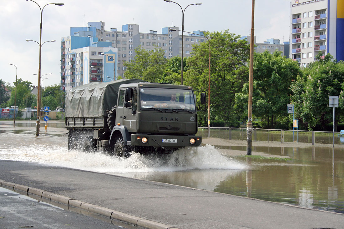 Polish truck Star 266M. Flood in Wroclaw, 2010.05.23.